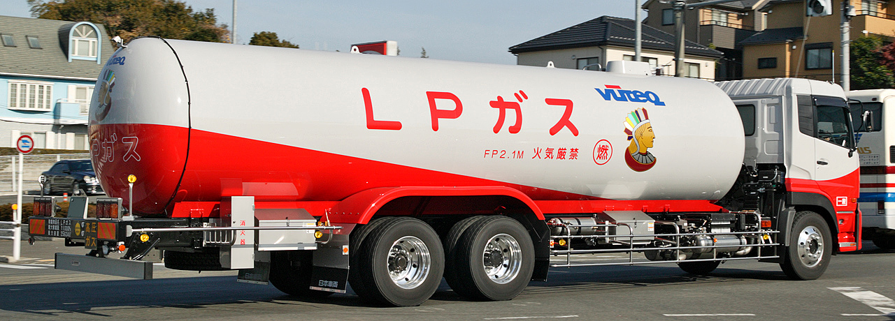 Nissan Diesel Quon LPG tanker